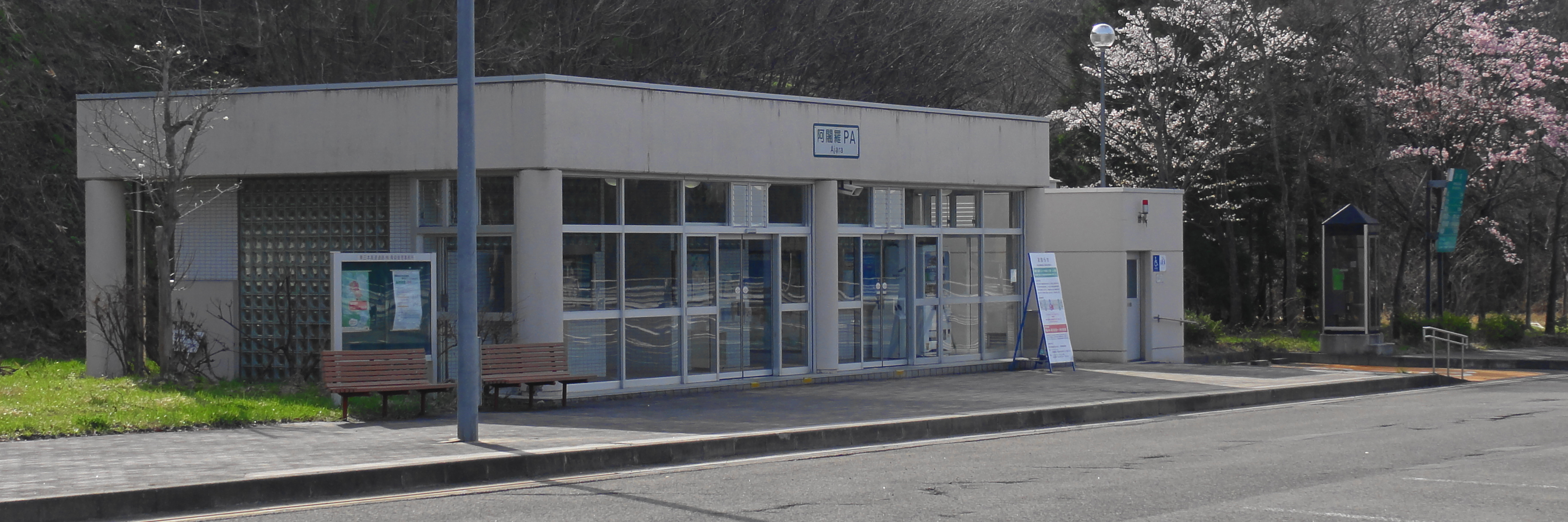 Azyara Parking Area,Aomori prefecture, Japan